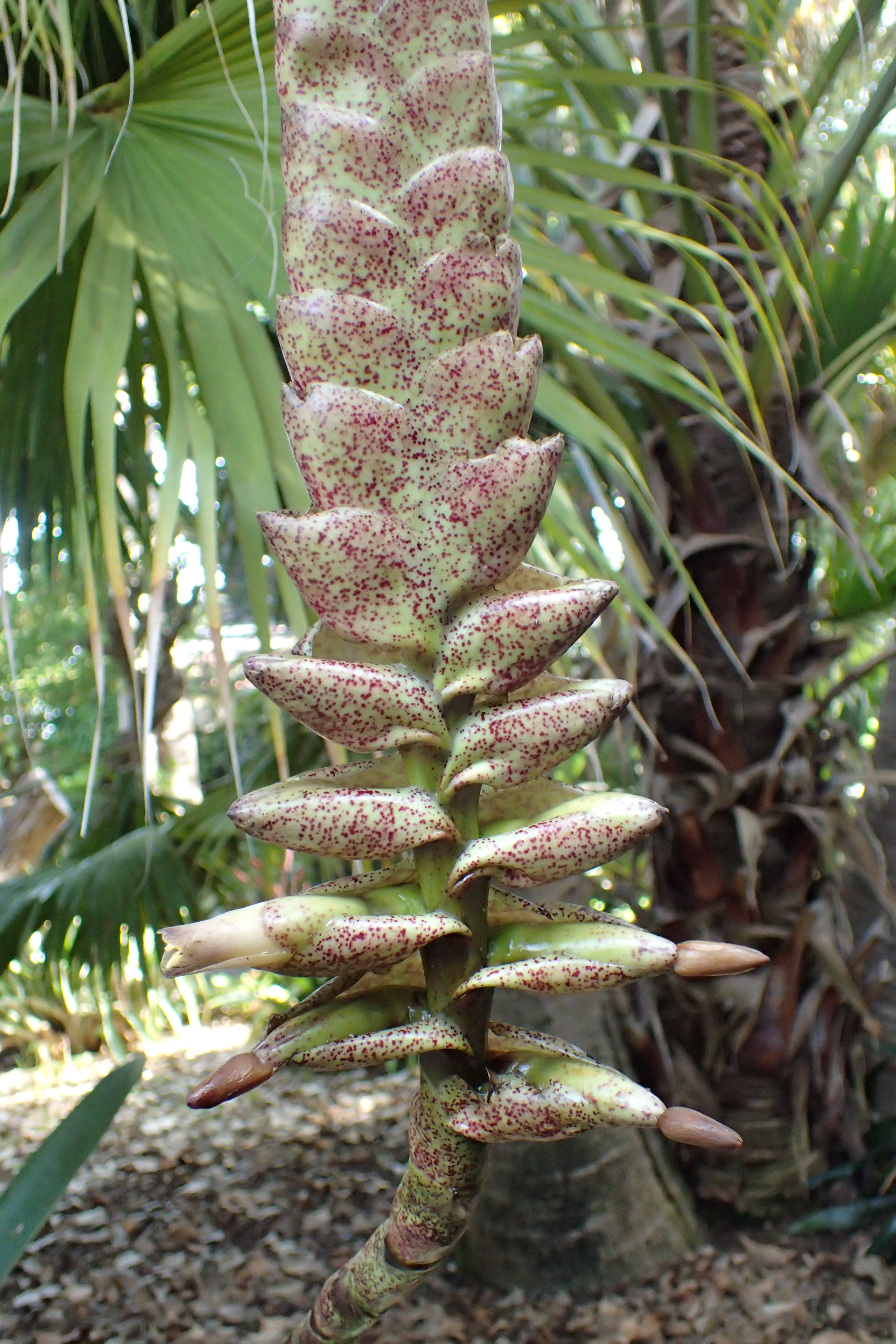 Vriesea fosteriana in Jardín de Aclimatación de la Orotava